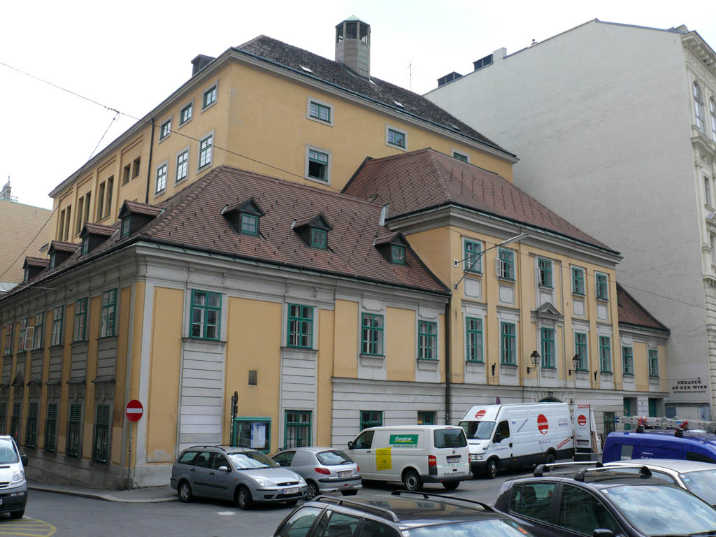 Theater an der Wien